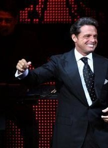 Luis Miguel in the National Auditorium.